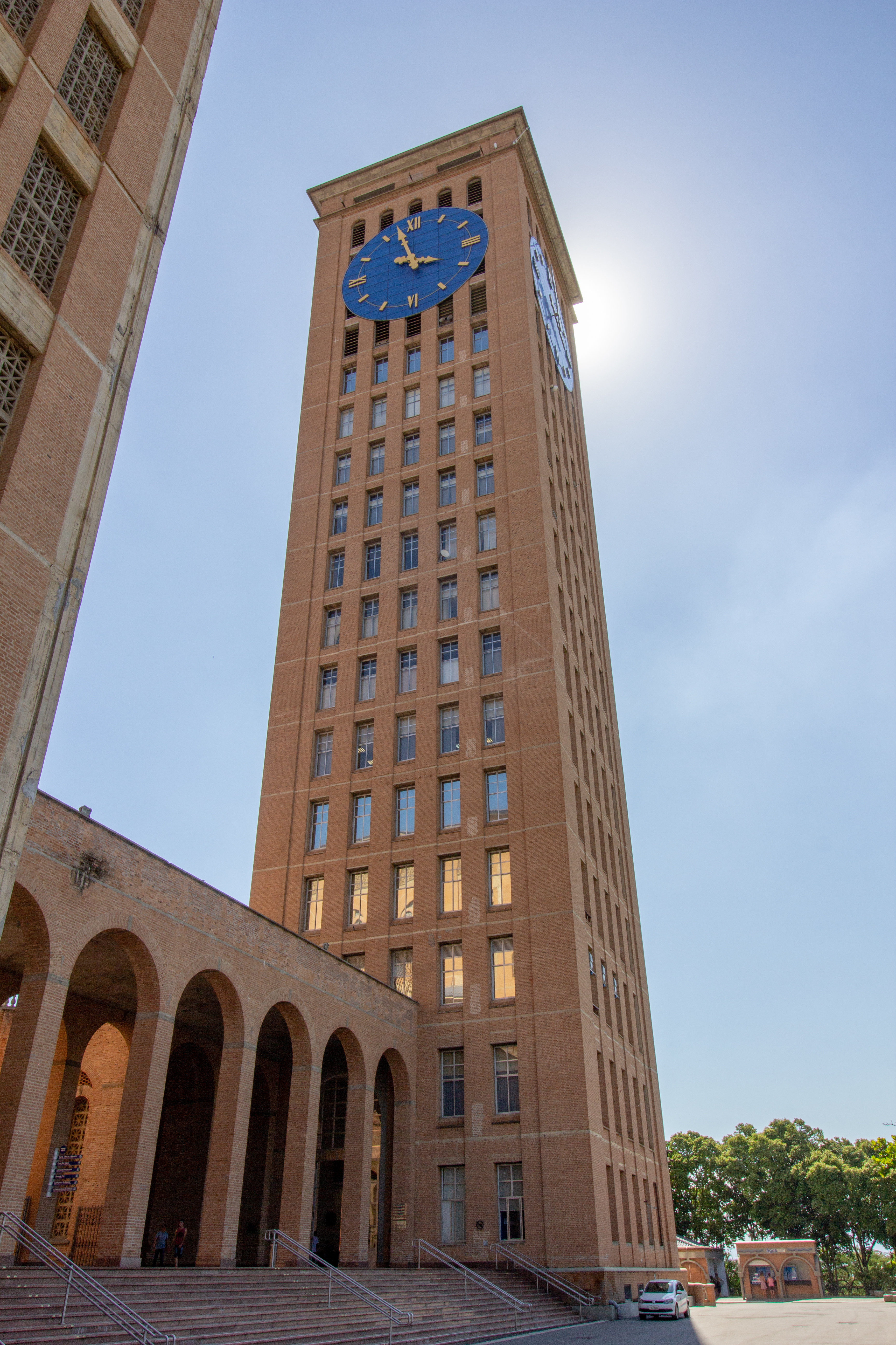 Basilica of the National Shrine of Our Lady of Aparecida, Sao Paulo, Brazil